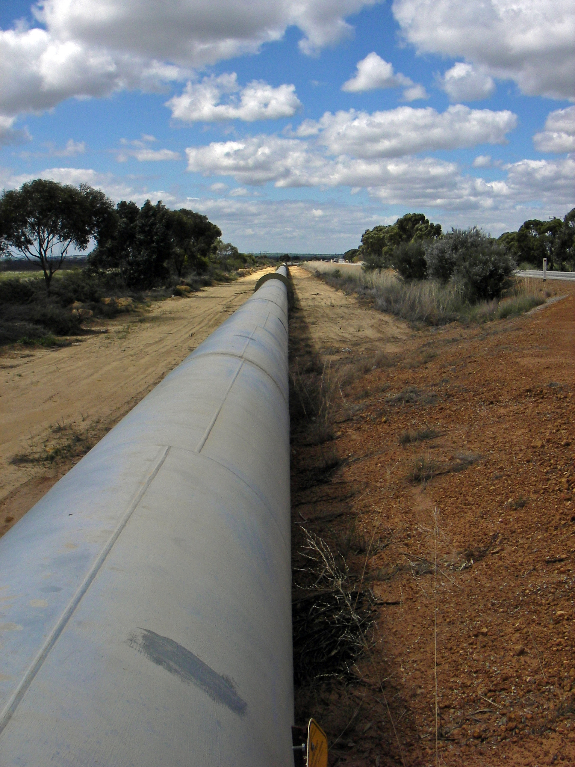 Pipeline, see Goldfields_Water_Supply_Scheme